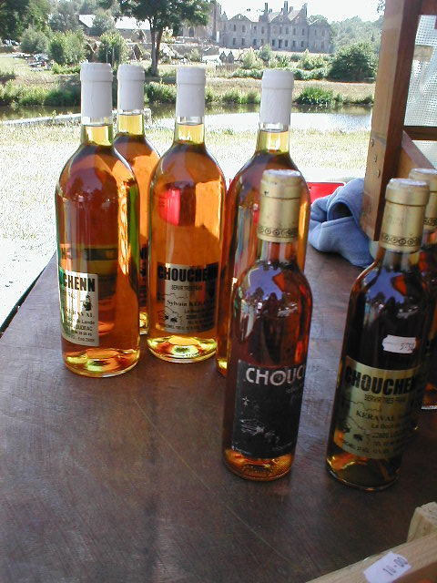 Chouchenn Breton for 'mead'. On the honey stall